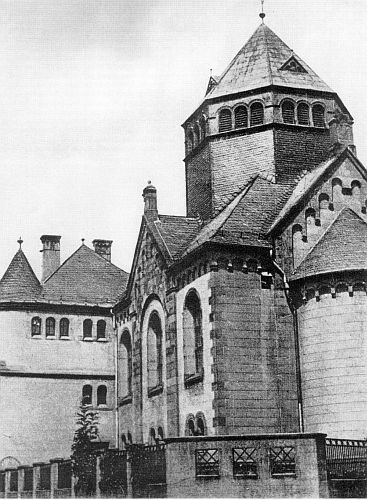 Synagogue of Alsfeld, destroyed by the nazis during the Kristal Nacht, in 1938